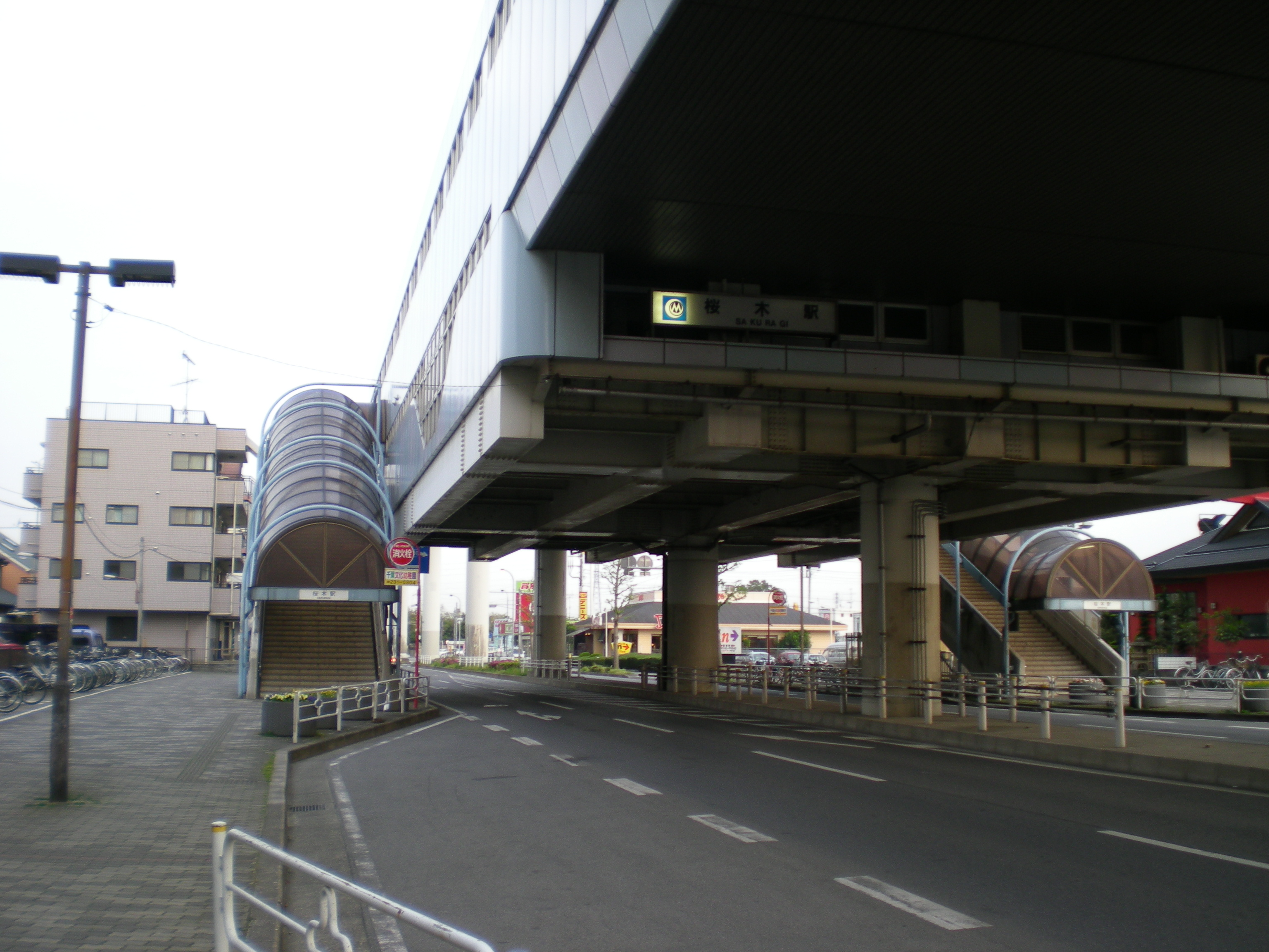 Chiba Urban Monorail Sakuragi Station